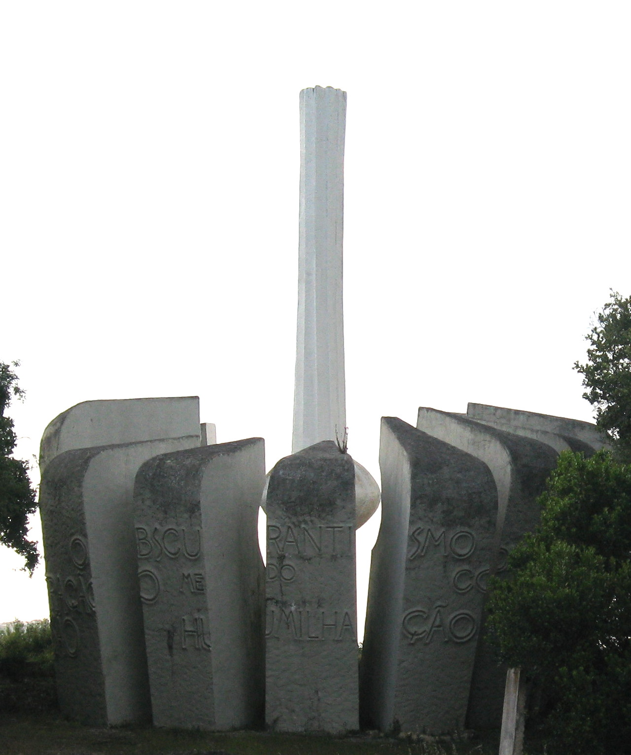 Cela, Alcobaça, Portugal, Vela Velha, monument for Humberto Delgado (1906-1965) ao general sem medo (general without fear), Portuguese politician, murdered by the PIDE 1965